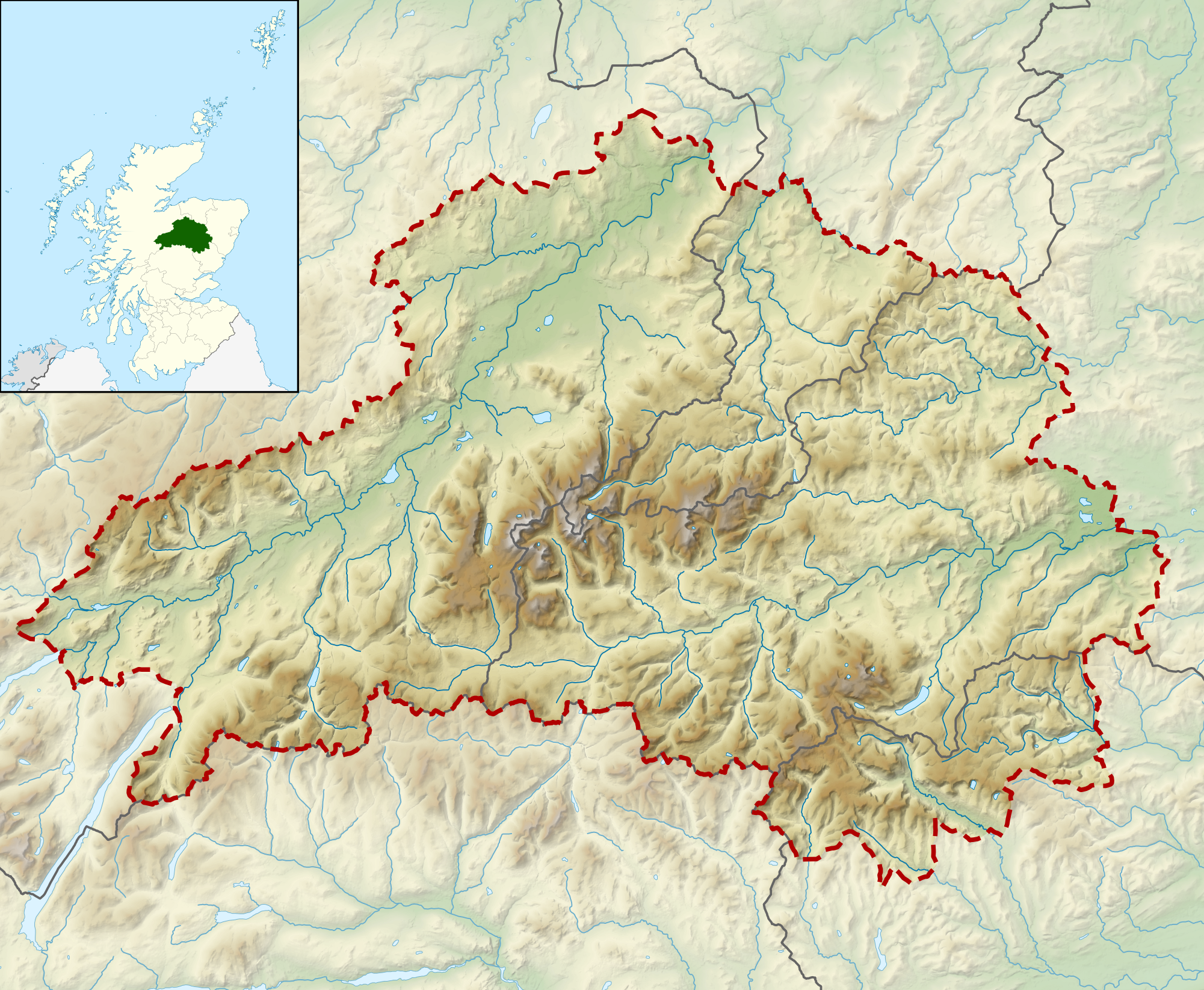 Relief map of the Cairngorms National Park National Park, UK Equirectangular map projection on WGS 84 datum, with N/S stretched 170% Geographic limits: West: 4.50W East: 2.75W North: 57.50N South: 56.70N